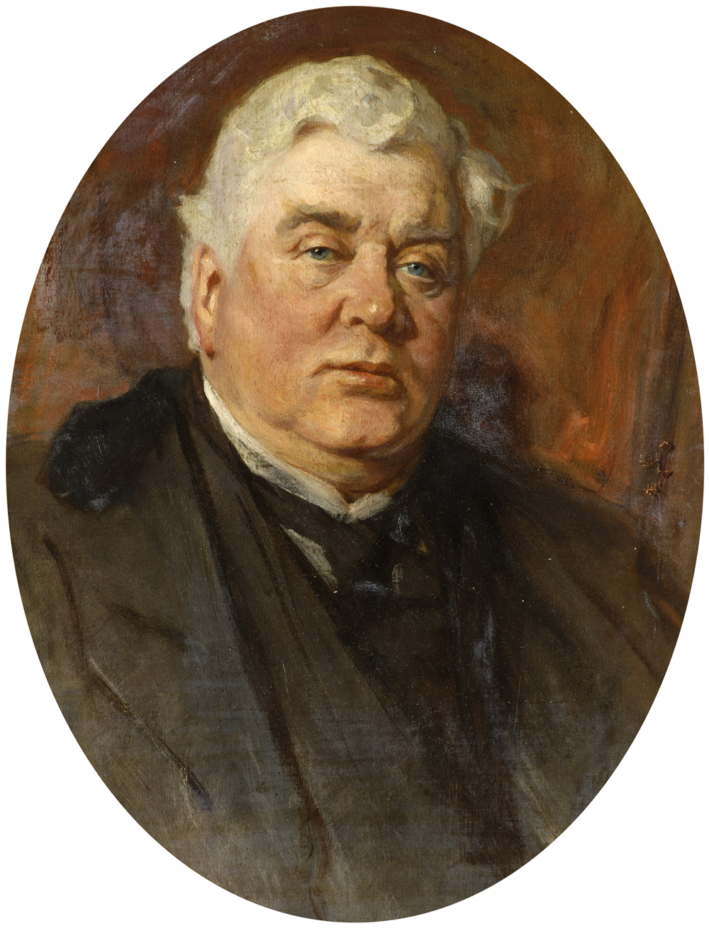 Portrait of Andrew Jameson, Lord Ardwall (1845–1911), Scottish judge.